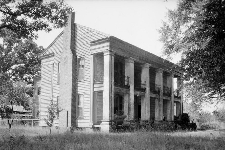 Lowry-Ford House & Kitchen, Washington Street (County Road 45), Marion vicinity, Perry, AL. Now known as the Henry House and listed on the National Register of Historic Places